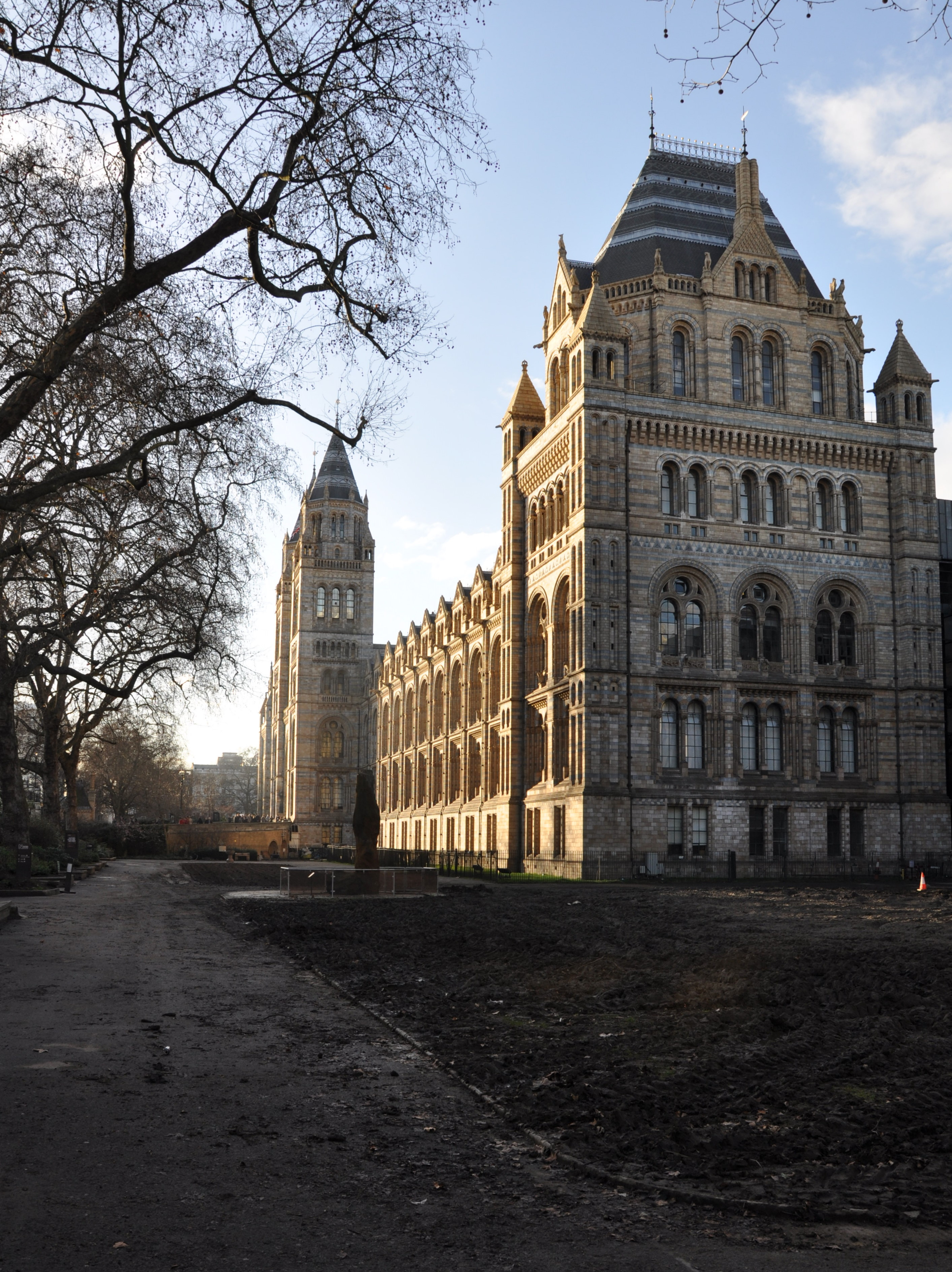 Natural History Museum London.